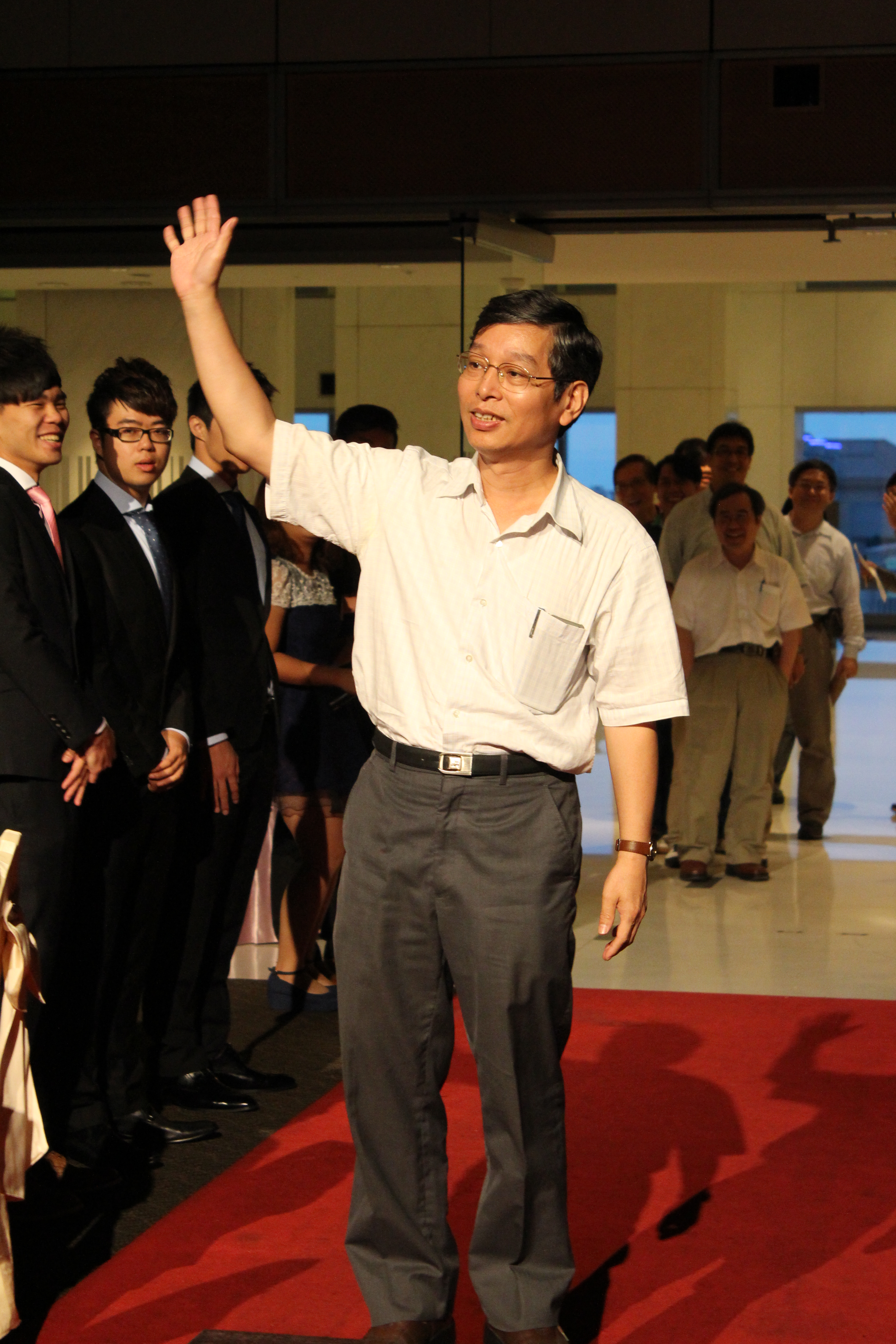 Professor Tyson Lin is waving to the students of Photonics at Feng-Chia University in 2014. 中文（台灣）: 逢甲大學光電學系教授林泰生教授於2014年謝師宴上向應屆畢業生揮手致意。